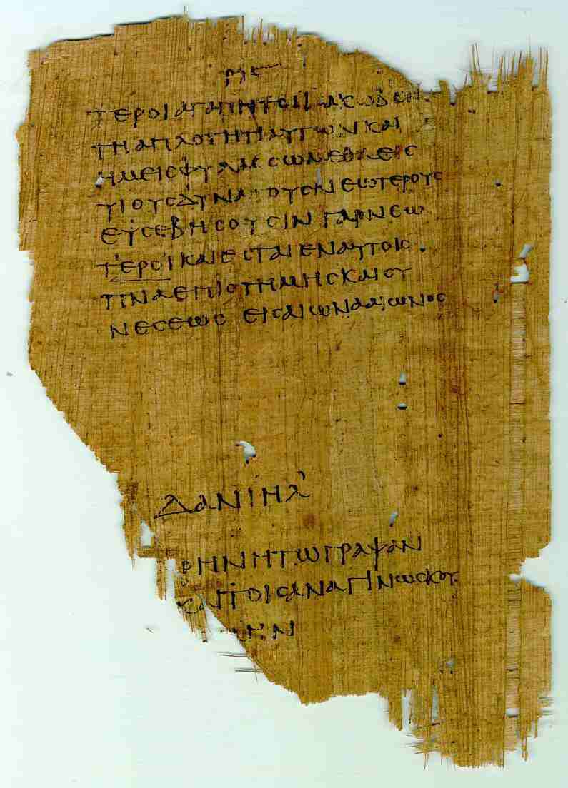 Papyrus 967, P. Köln Theol. 37v Susanna 62a-62b + Subscriptio (page 196, lines 1-15)